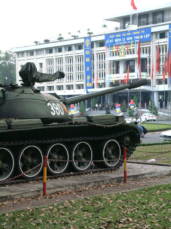 One of the tanks that crashed in the gates of the South Vietnamese presidential palace; it was an iconic image at the time, being the victory of Communism over the Americans